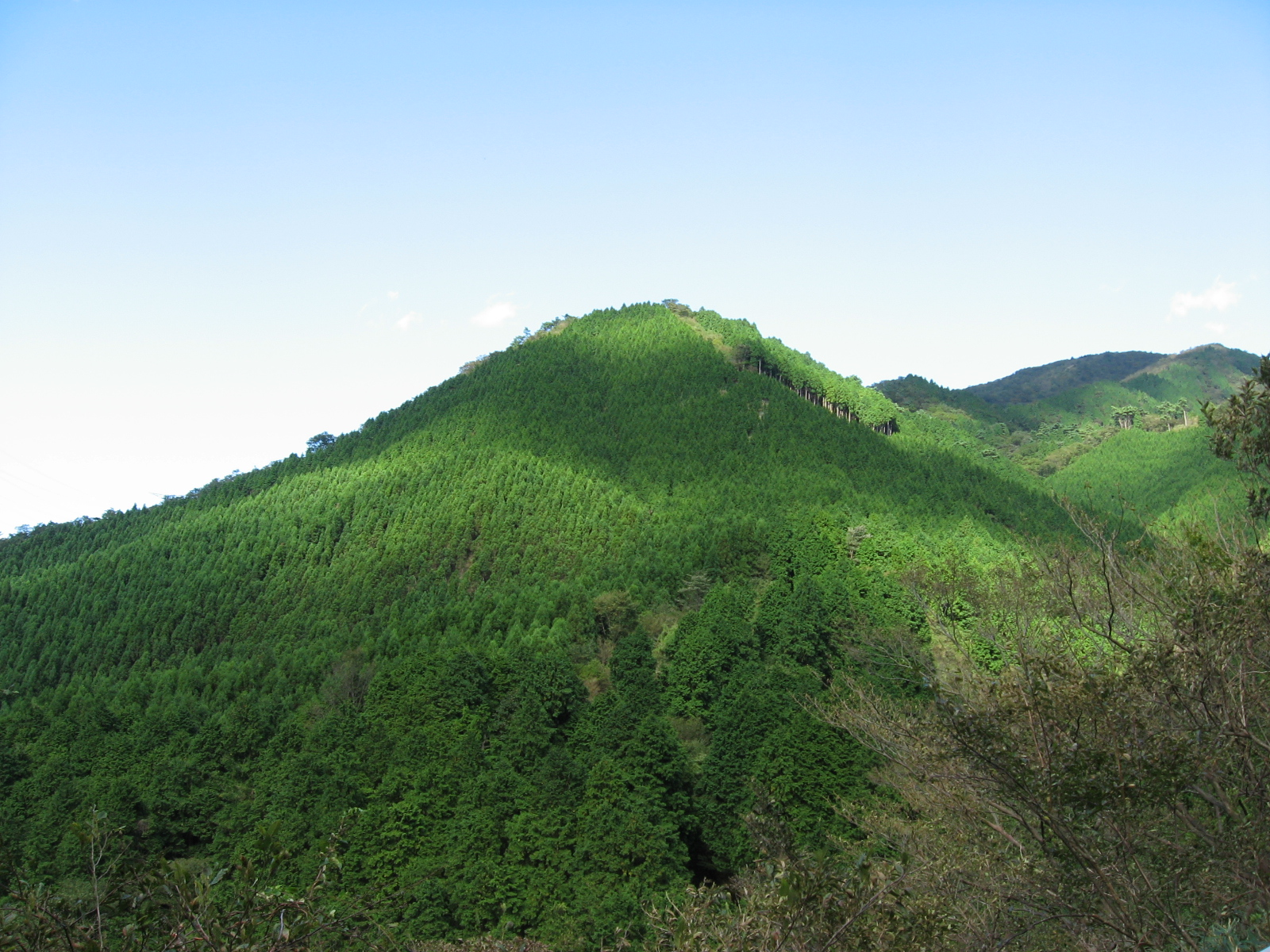 Mt.Harutake (Harutake-yama), Hadano city, Kanagawa prefecture, Japan.